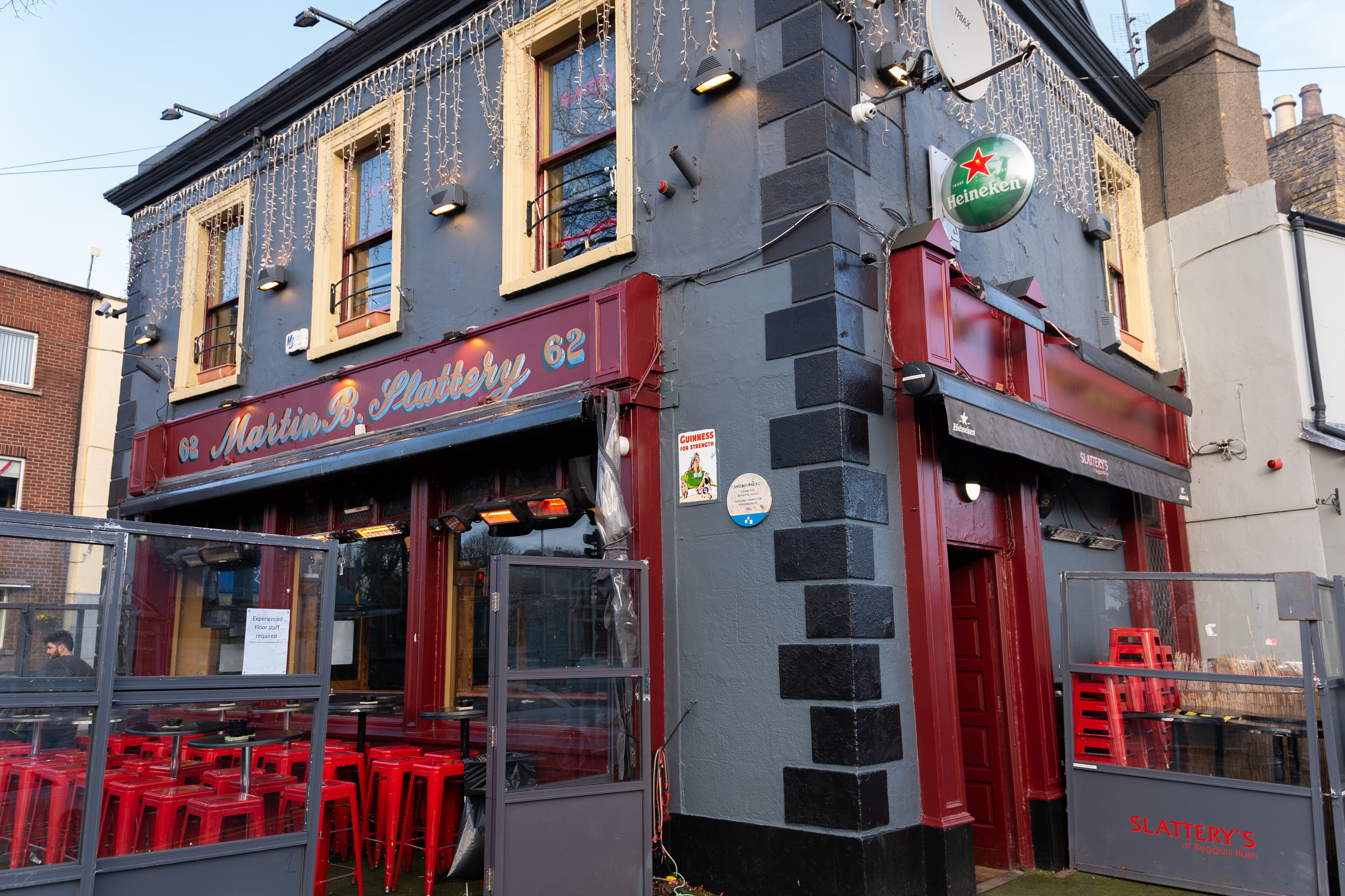 A Dublin City Council Commemorative plaque, unveiled on 4th September 2015, to commemorate the founding of Shelbourne Football Club.